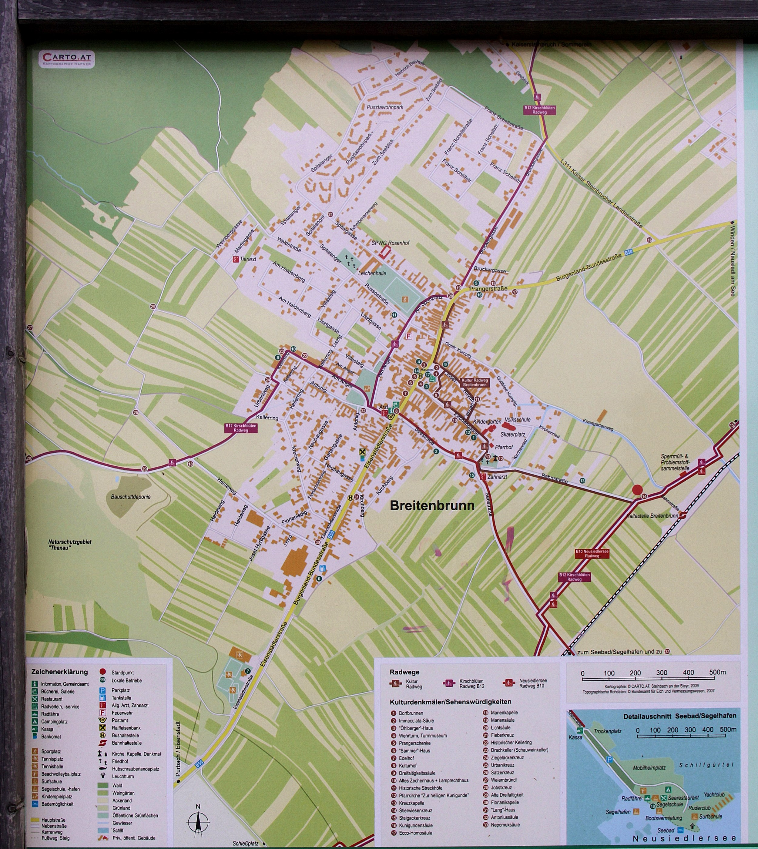 Map of Breitenbrunn am Neusiedler See